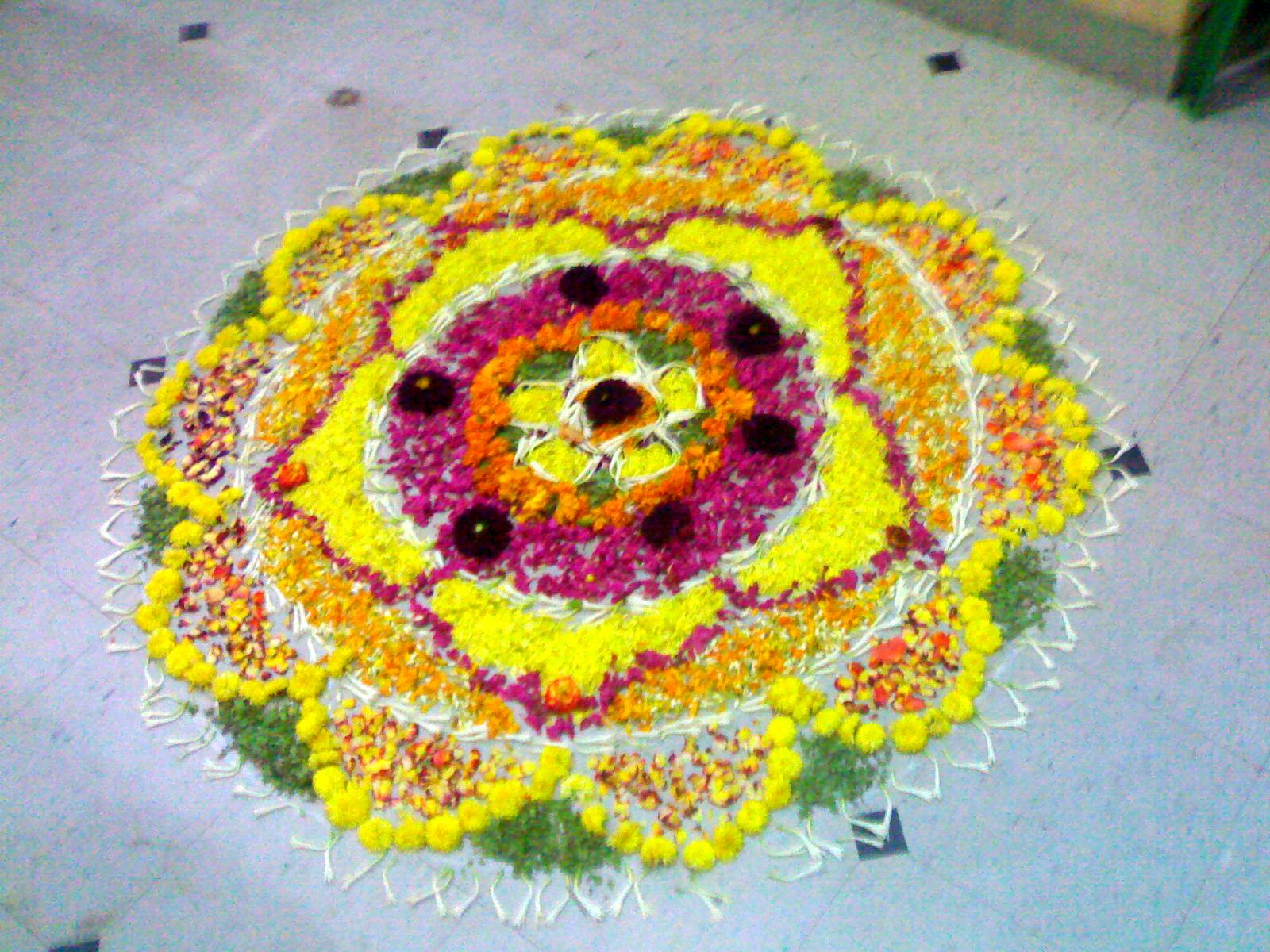 Flower kolam made at an office in Chennai for the Keralan festival Onam.